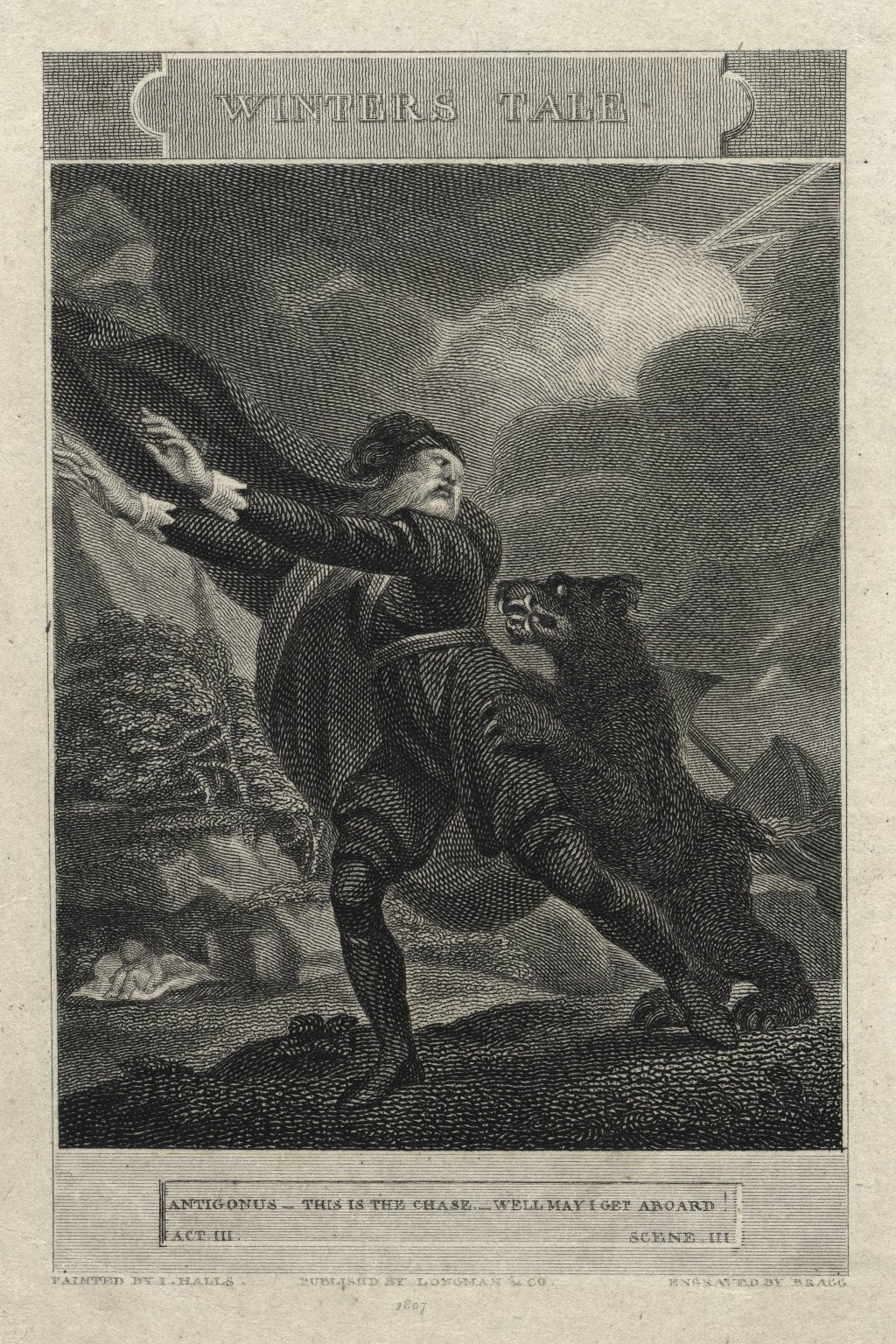 An 1807 print of Act III, Scene iii: Exit Antigonus chased by a bear